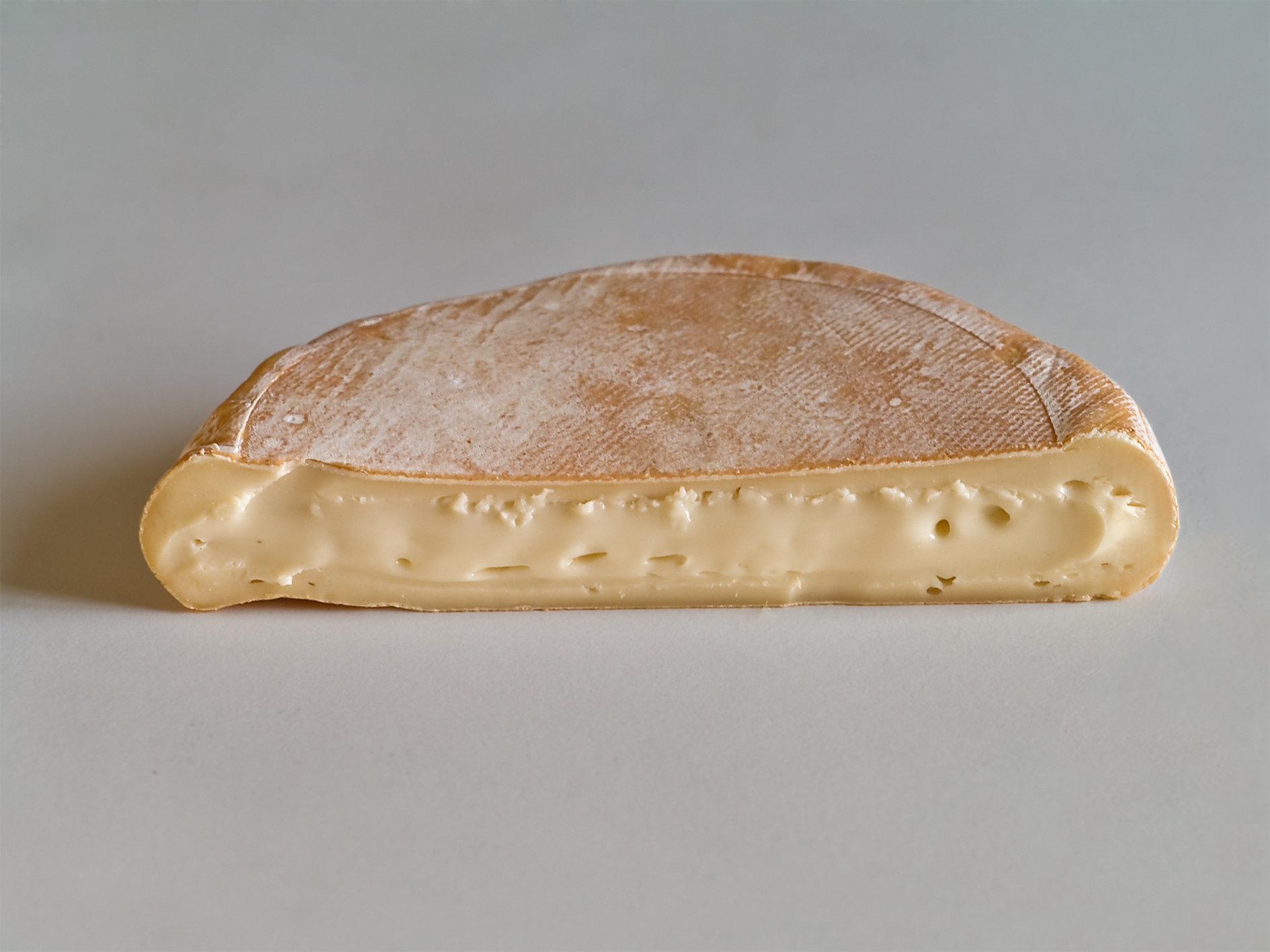 Reblochon is a French cow's-milk labelled Protected Designation of Origin (PDO) cheese, made in the Alps region of Haute-Savoie and Savoie.